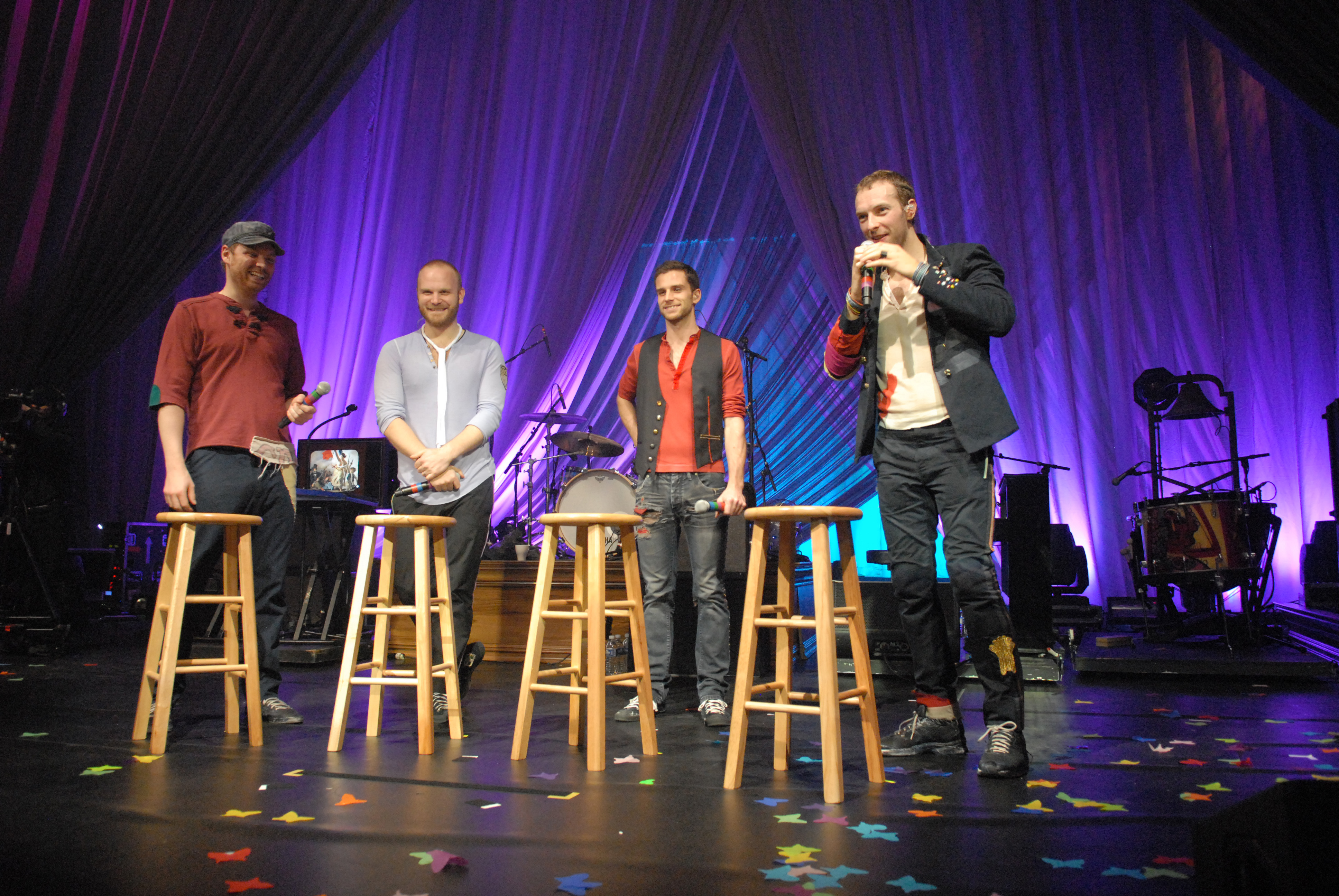 Coldplay performs for Nissan Live Sets on Yahoo! Music